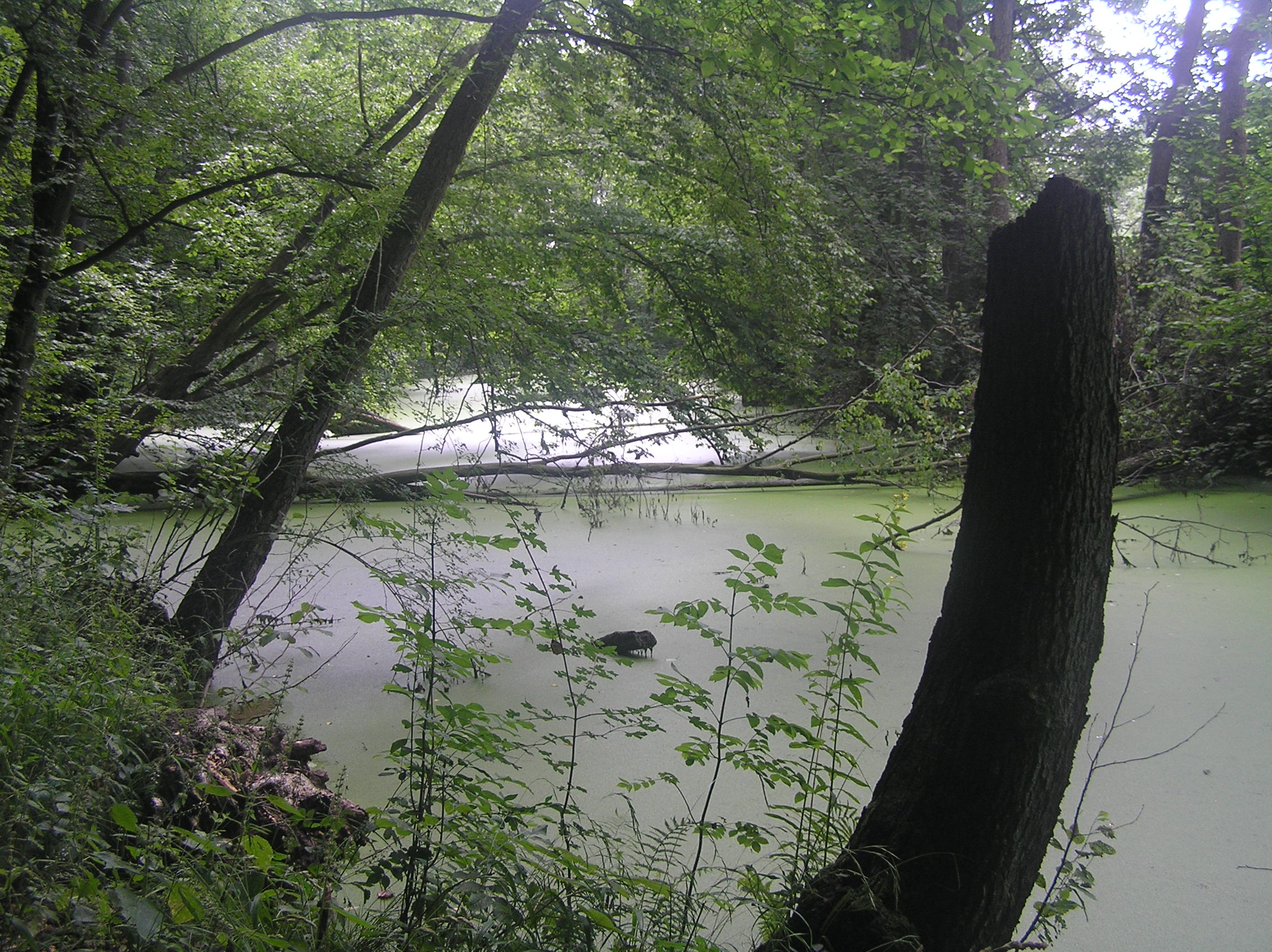 The Nature Reserve Hemže-Mýtkov near Choceň, Czech Republic